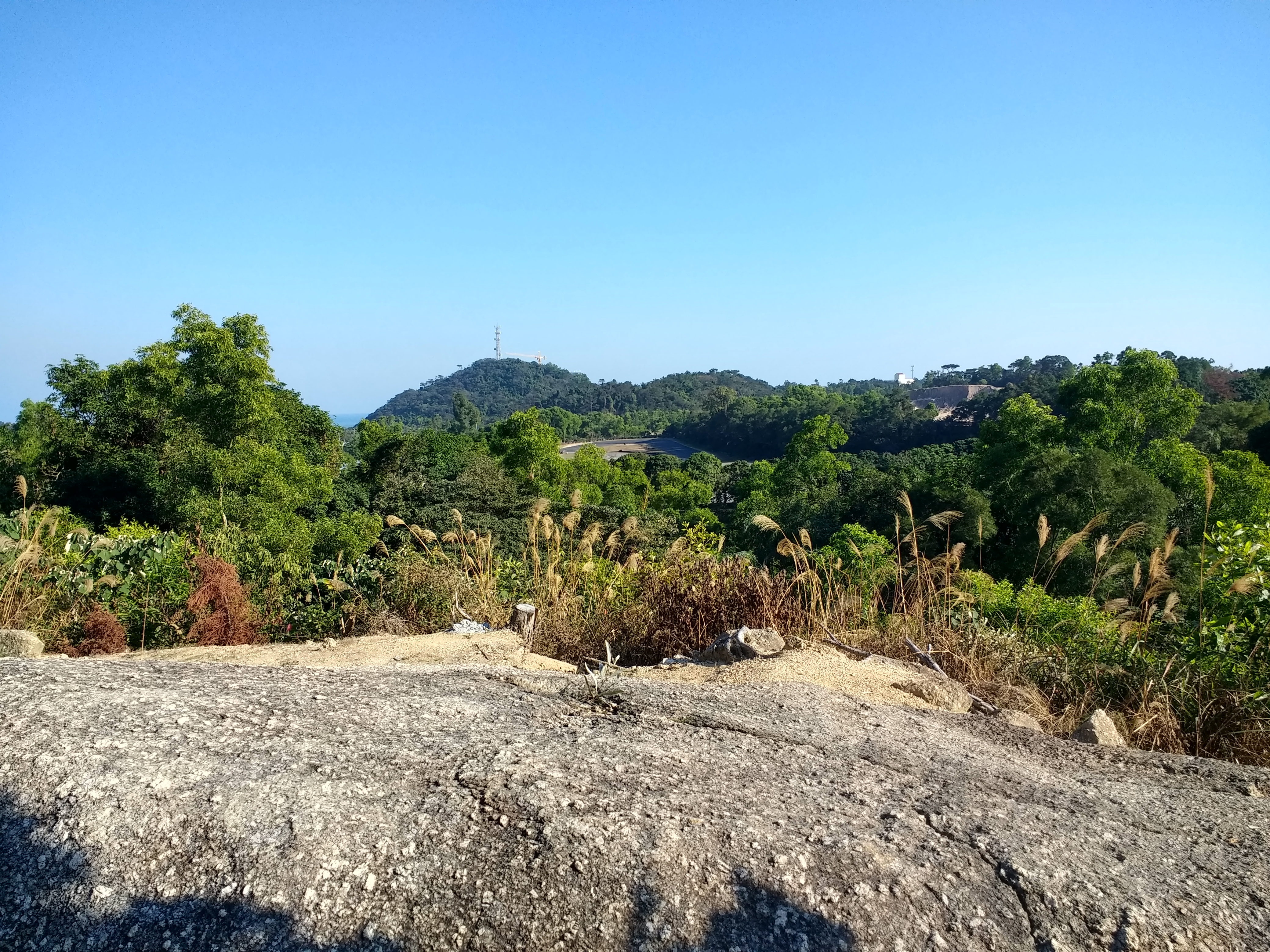 Hills on Qi'ao Island in Zhuhai.